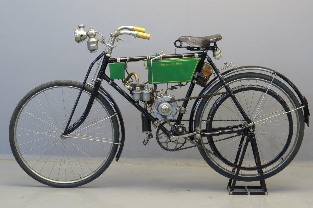 1903 Dalton and Wade (DAW) 235cc Automatic Inlet Valve motorcycle